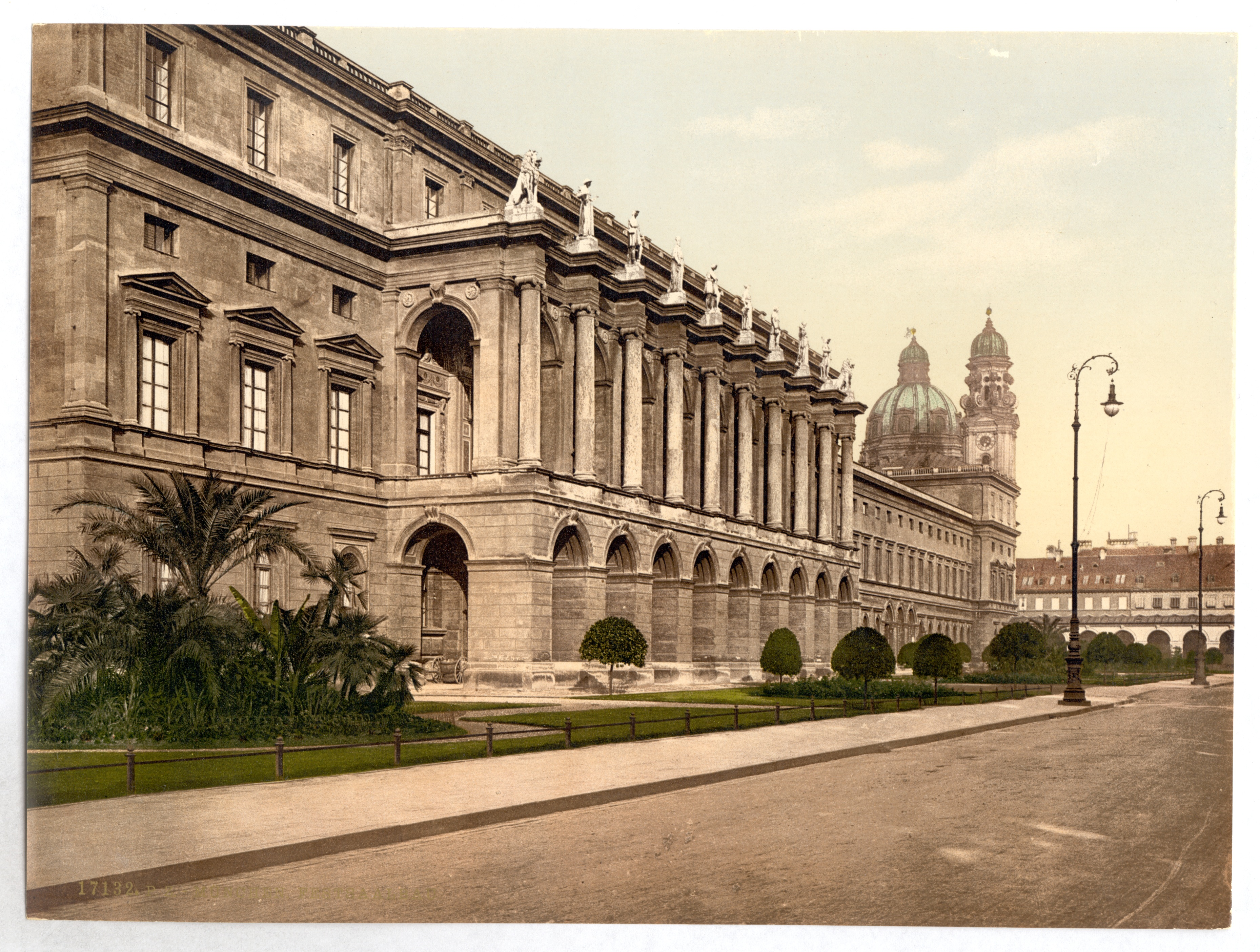 Title from the Detroit Publishing Co., catalogue J-foreign section. Detroit, Mich. : Detroit Photographic Company, 1905.; Forms part of: Views of Germany in the Photochrom print collection.; Print no. "17132".